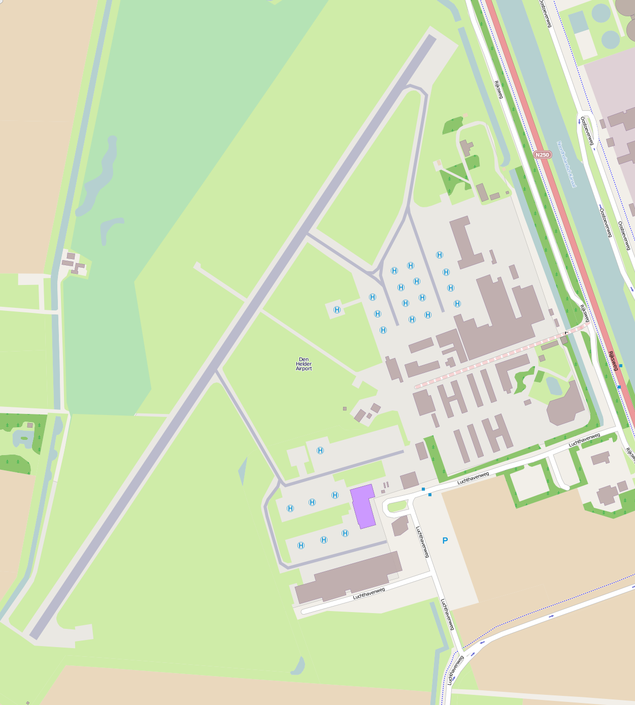 Open Street Map of the airfield.